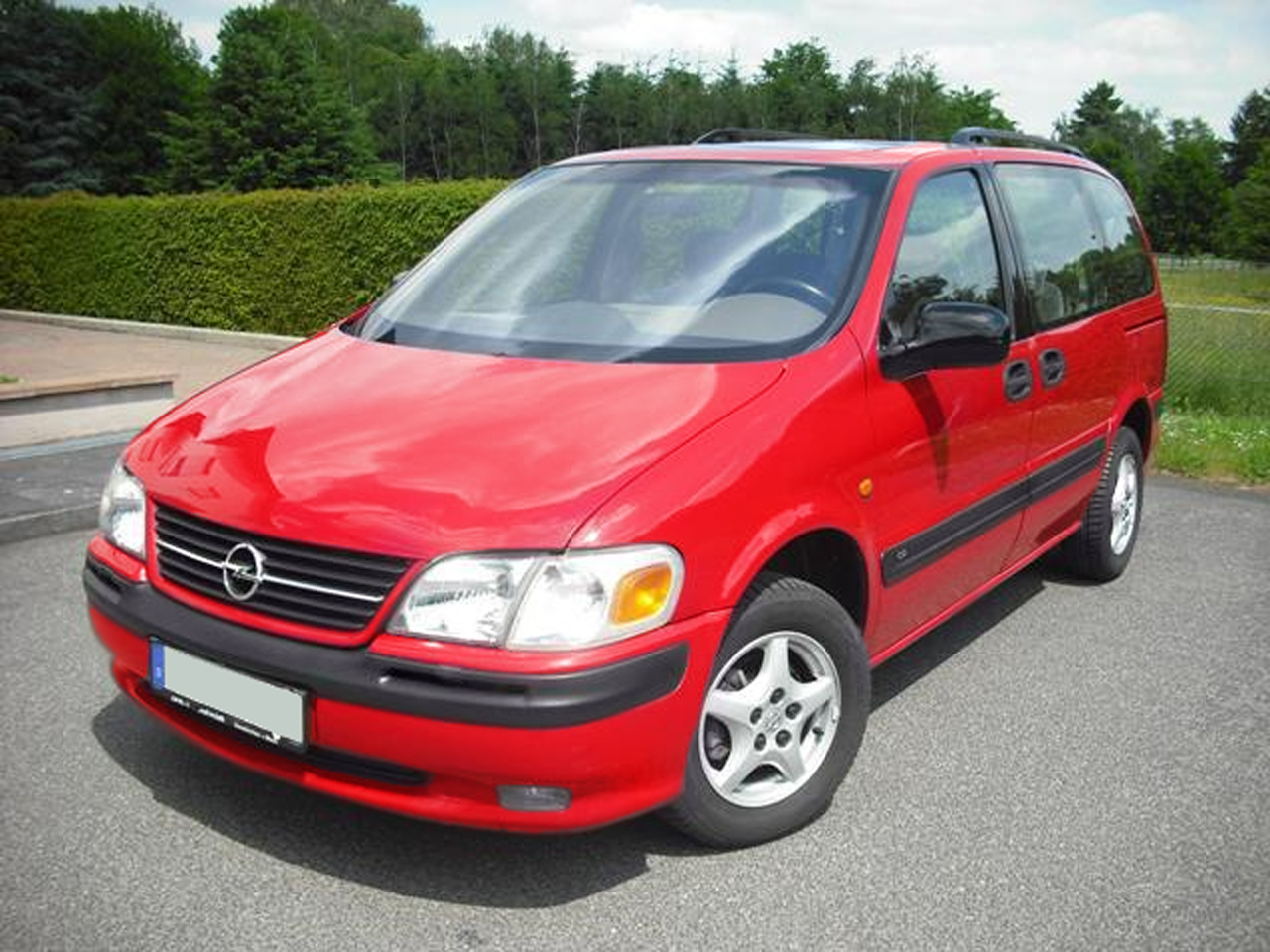 Its twin is the Pontiac Grand Montana